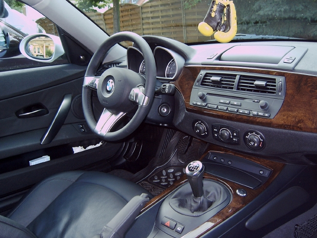 Interior of a 2007 BMW Z4 Coupe with manual 6-speed trans and leather/wood trim. Manufactured for export to Germany. Innenraum eines 2007er BMW Z4 Coupés mit manuellem Sechs-Ganggetriebe sowie Holz- und Lederausstattung. Deutsches Modell.